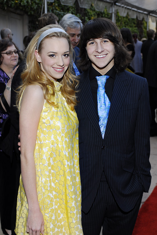 Andrea Bowen and Mitchell Musso at the 2006 Annie Awards red carpet at the Alex Theatre in Glendale, California.